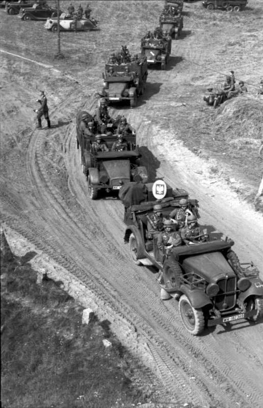 Poland, column of motorized German troops